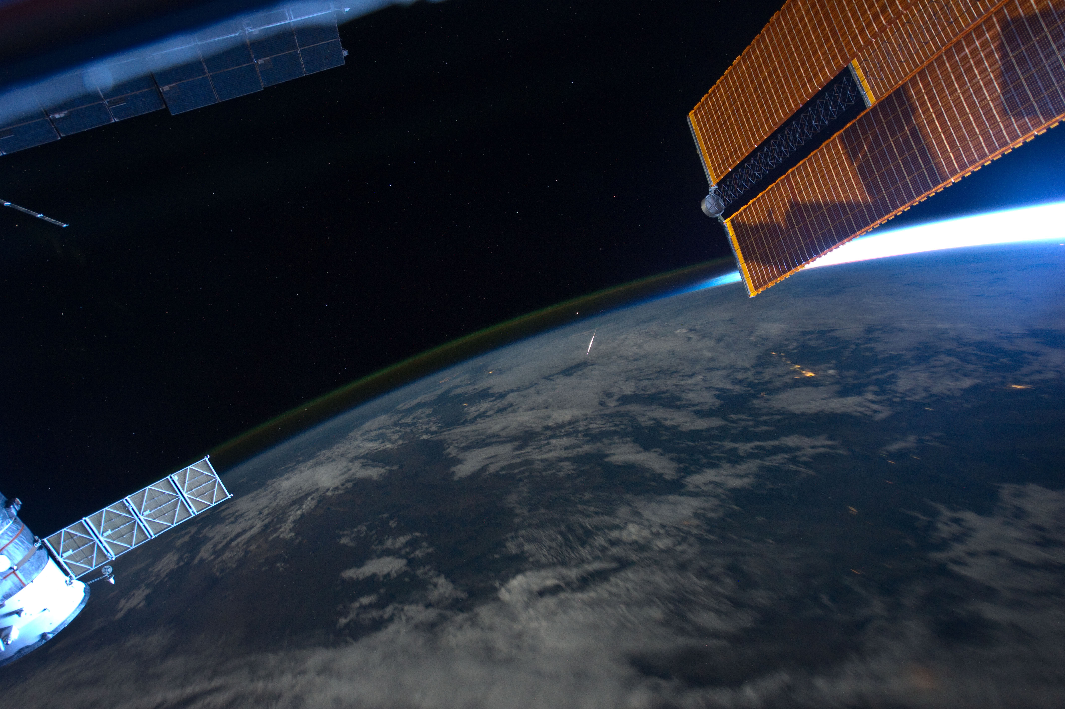 This astronaut photograph, taken from the International Space Station while over China (approximately 400 kilometres to the north-west of Beijing), provides the unusual perspective of looking down on a meteor as it passes through the atmosphere. Green and yellow airglow appears in thin layers above the limb of the Earth, extending from image left to the upper right. Atoms and molecules above 50 kilometers in the atmosphere are excited by sunlight during the day, and then release this energy at night, producing primarily green light that is observable from orbit. Part of a space station solar panel is visible at image upper right; behind the panel, a bright region indicates the Sun low on the horizon.